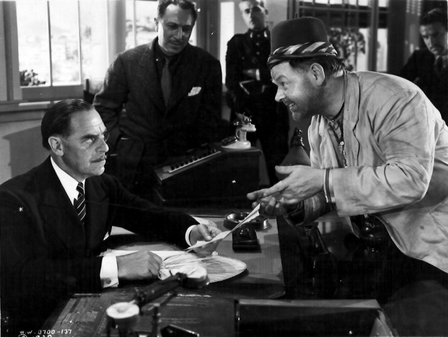 Walter Kingsford (left) & Gene Lockhart (right) in Algiers (1938)